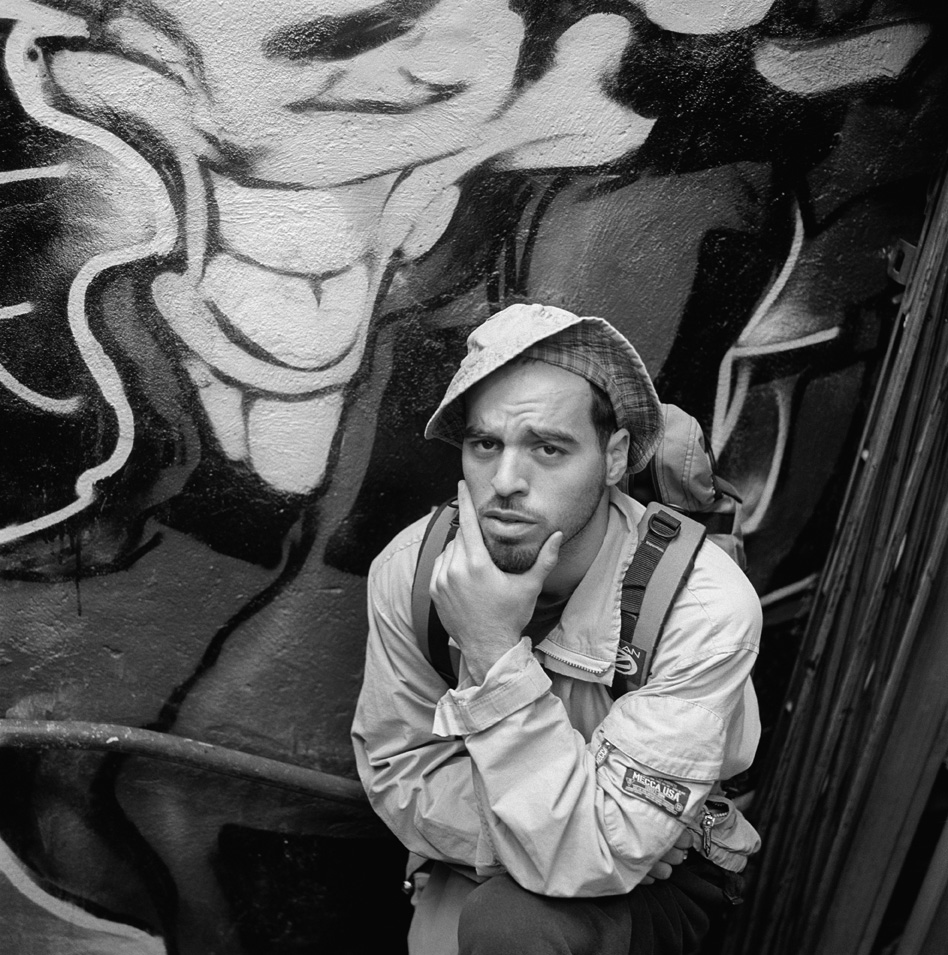 New York 1997, in front of his basement store entrance